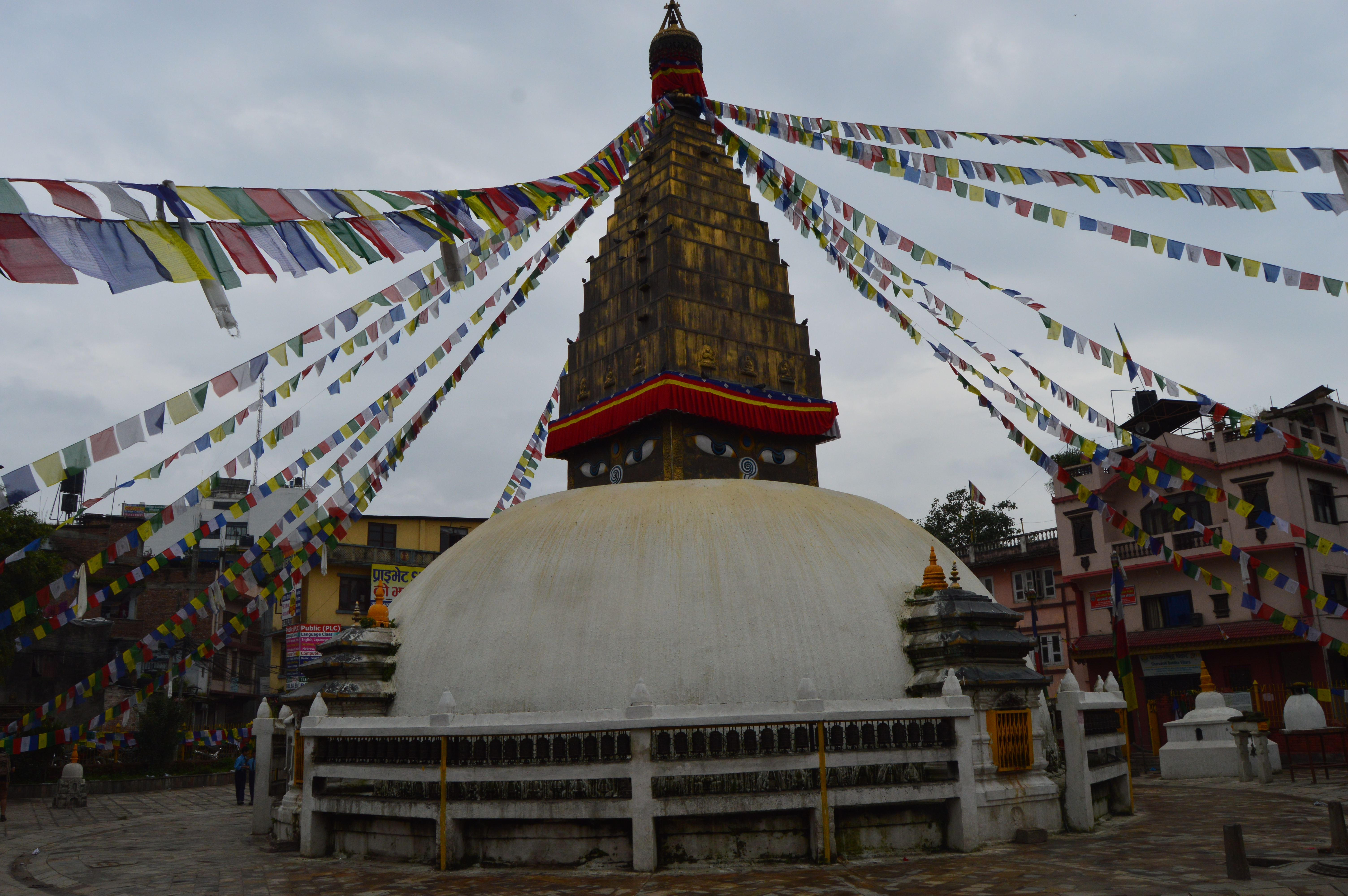 Charumati Stupa (Dhando Chaitya) is built by Princess Charumati,daughter of king Ashoka. It is located at Chabahil, Kathmandu